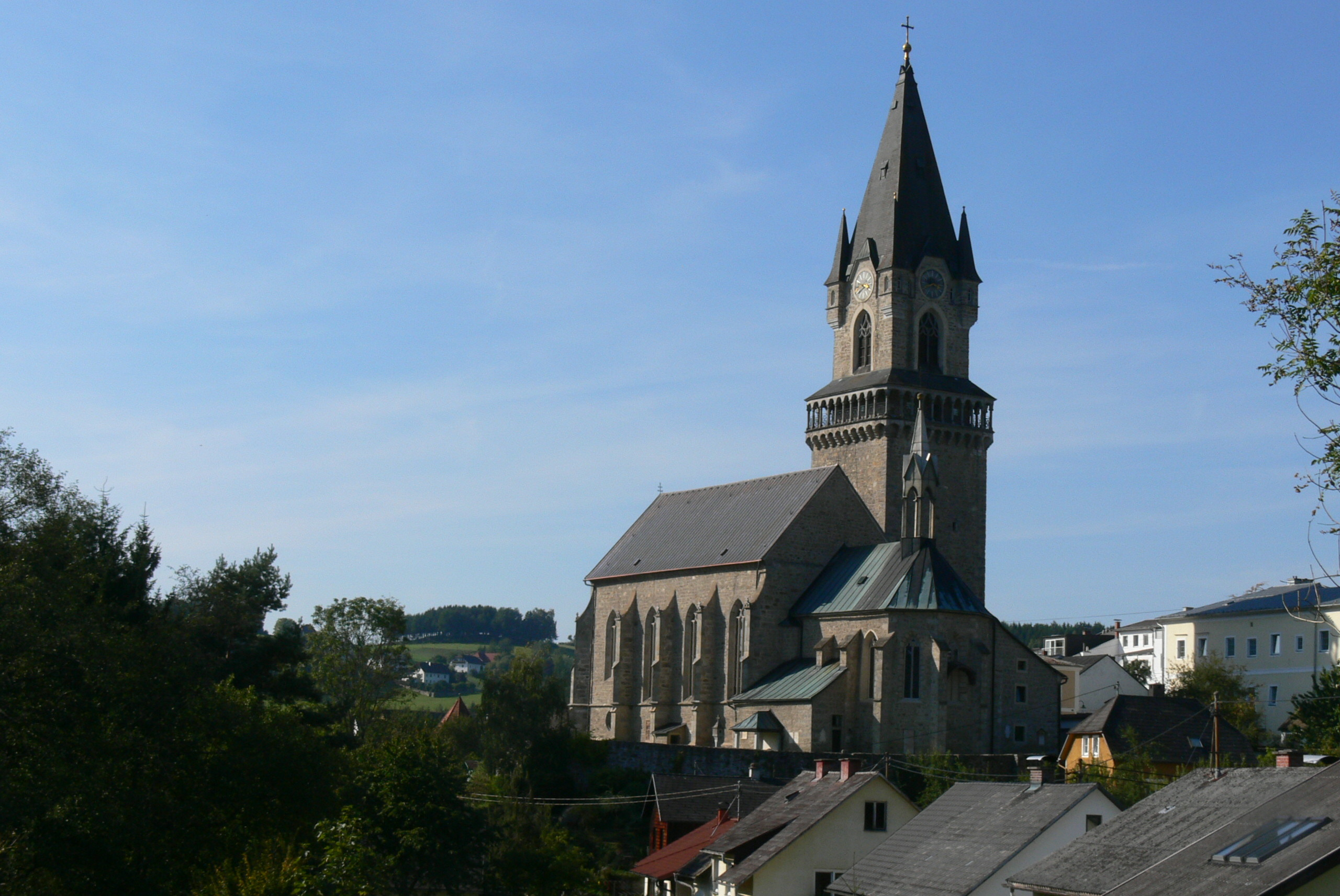 Haslach an der Mühl ( Upper Austria ). Saint Nicholas parish church: View from south.